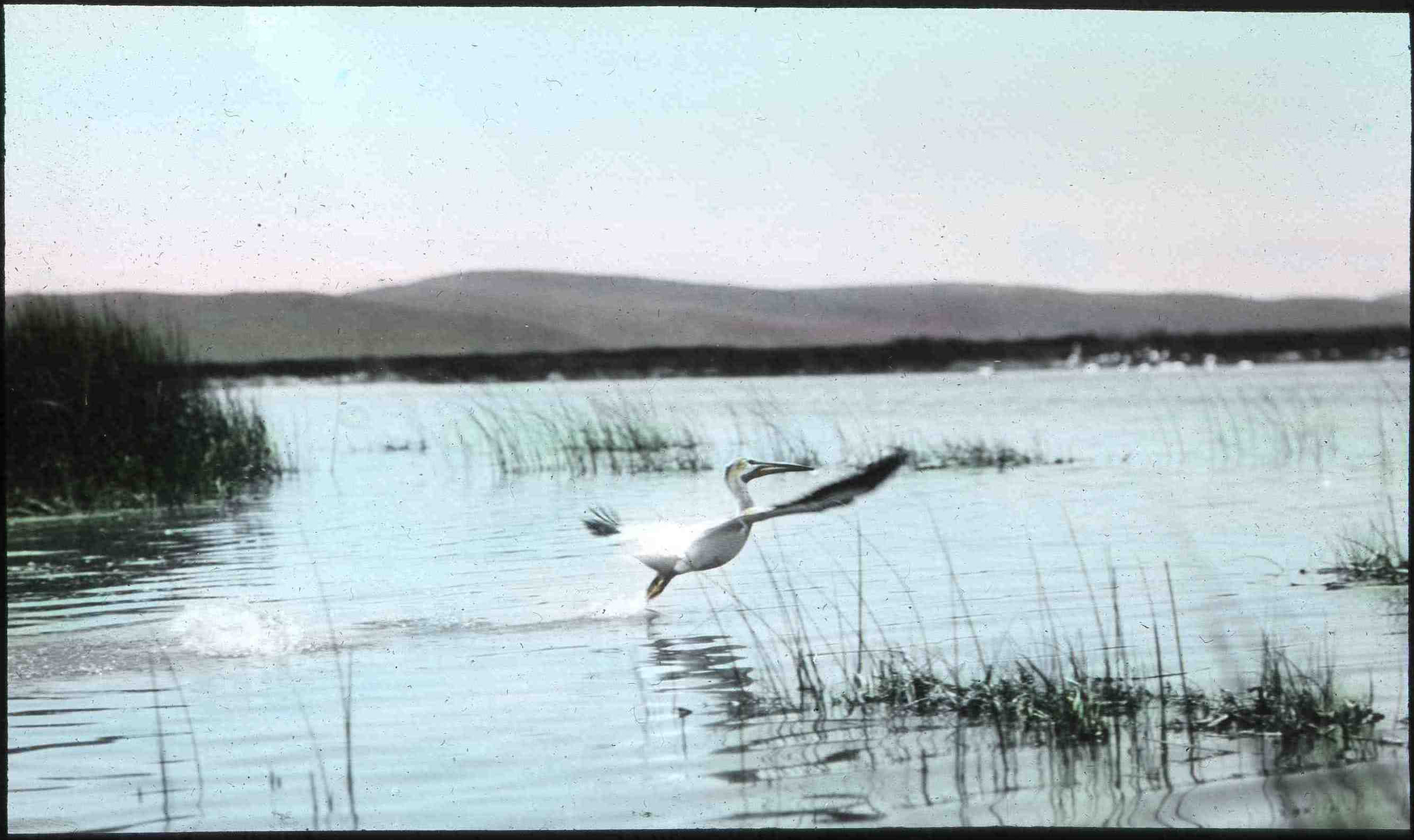 Hand painted glass slide of a White Pelican at take-off in Malheur Lake. Taken by Finley and Bohlman during a 1908 photography trip to Malheur that would later help Malheur become a bird refuge in 1908.